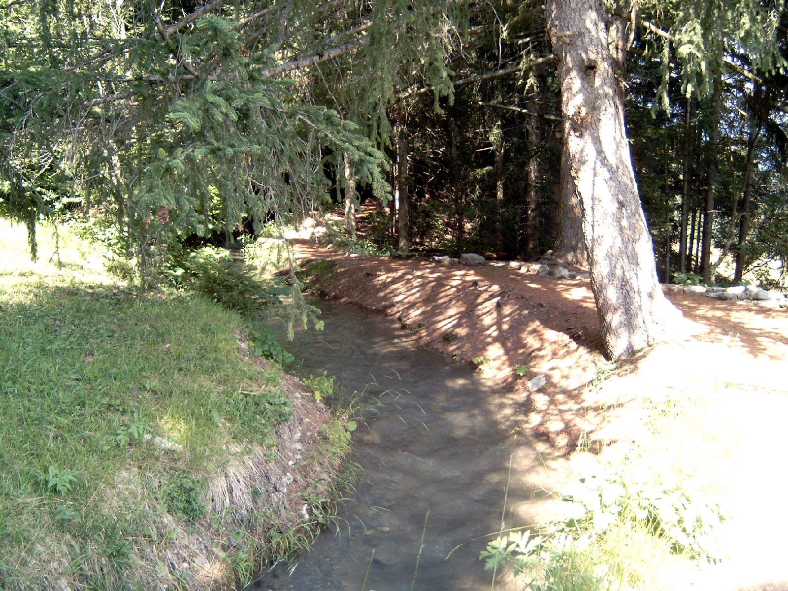 Irrigation channel/watercourse